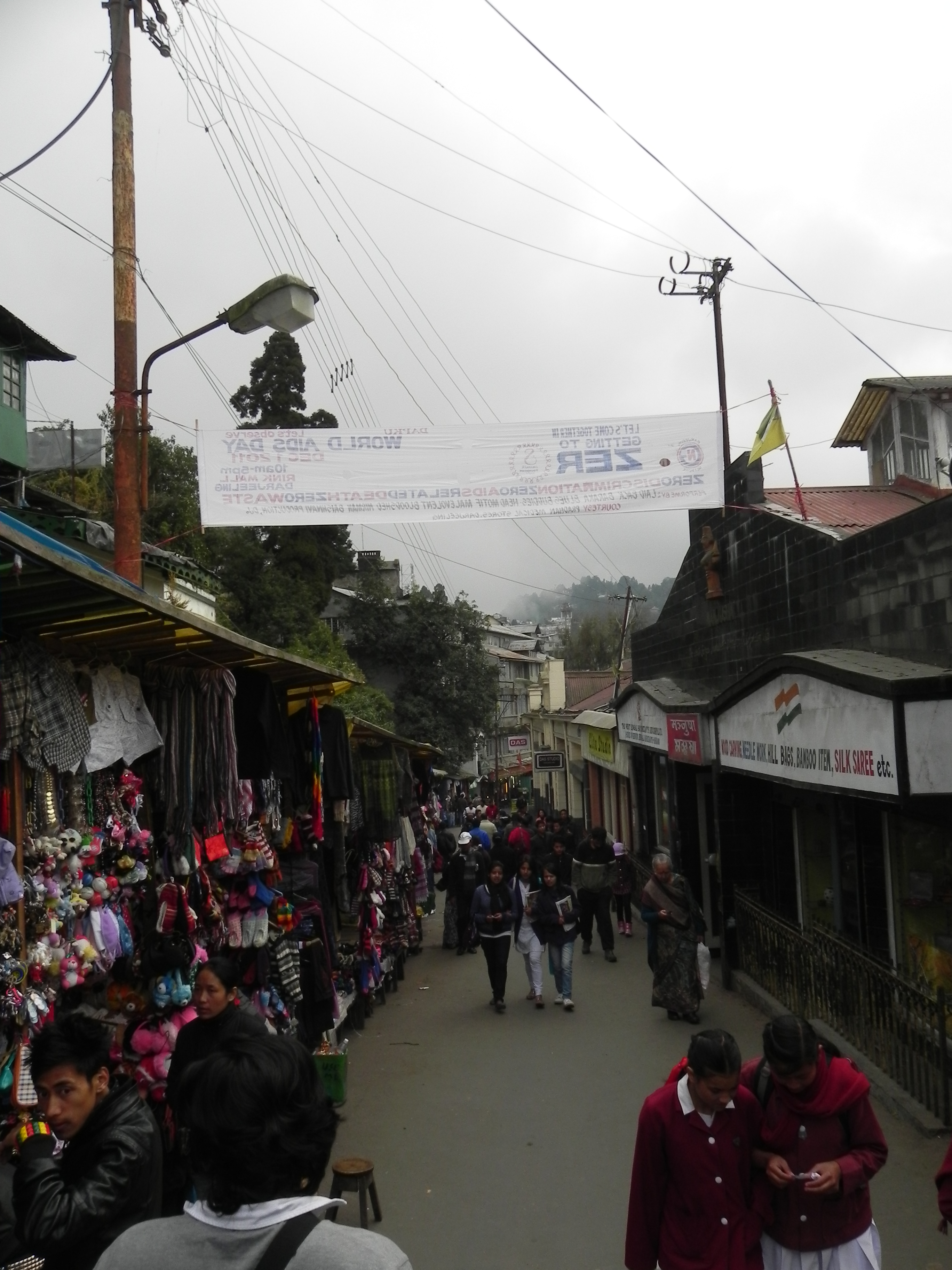 Market